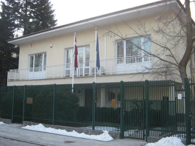 The building of the embassy of Latvia in Poland, Królowej Aldony 19 Street (Saska Kępa district).